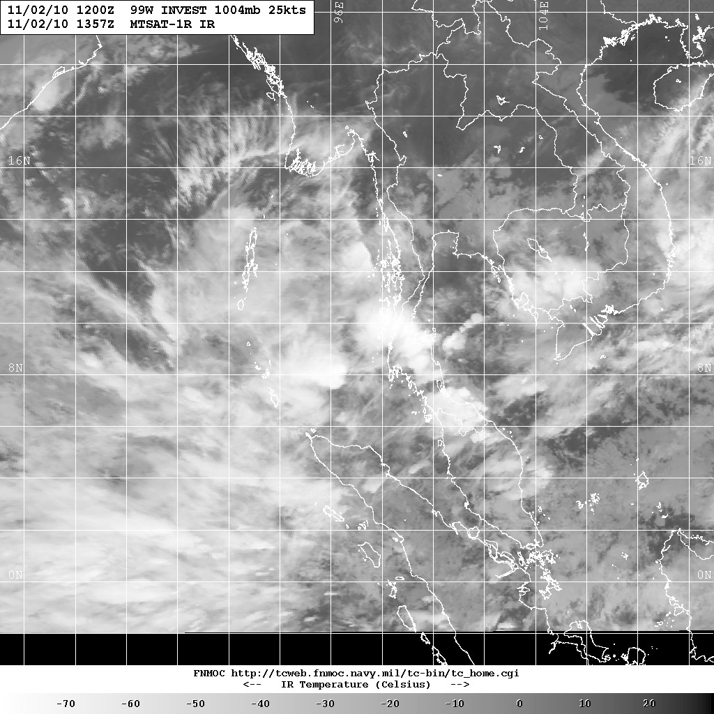 Tropical depression Jal seen on November 2, 2010.